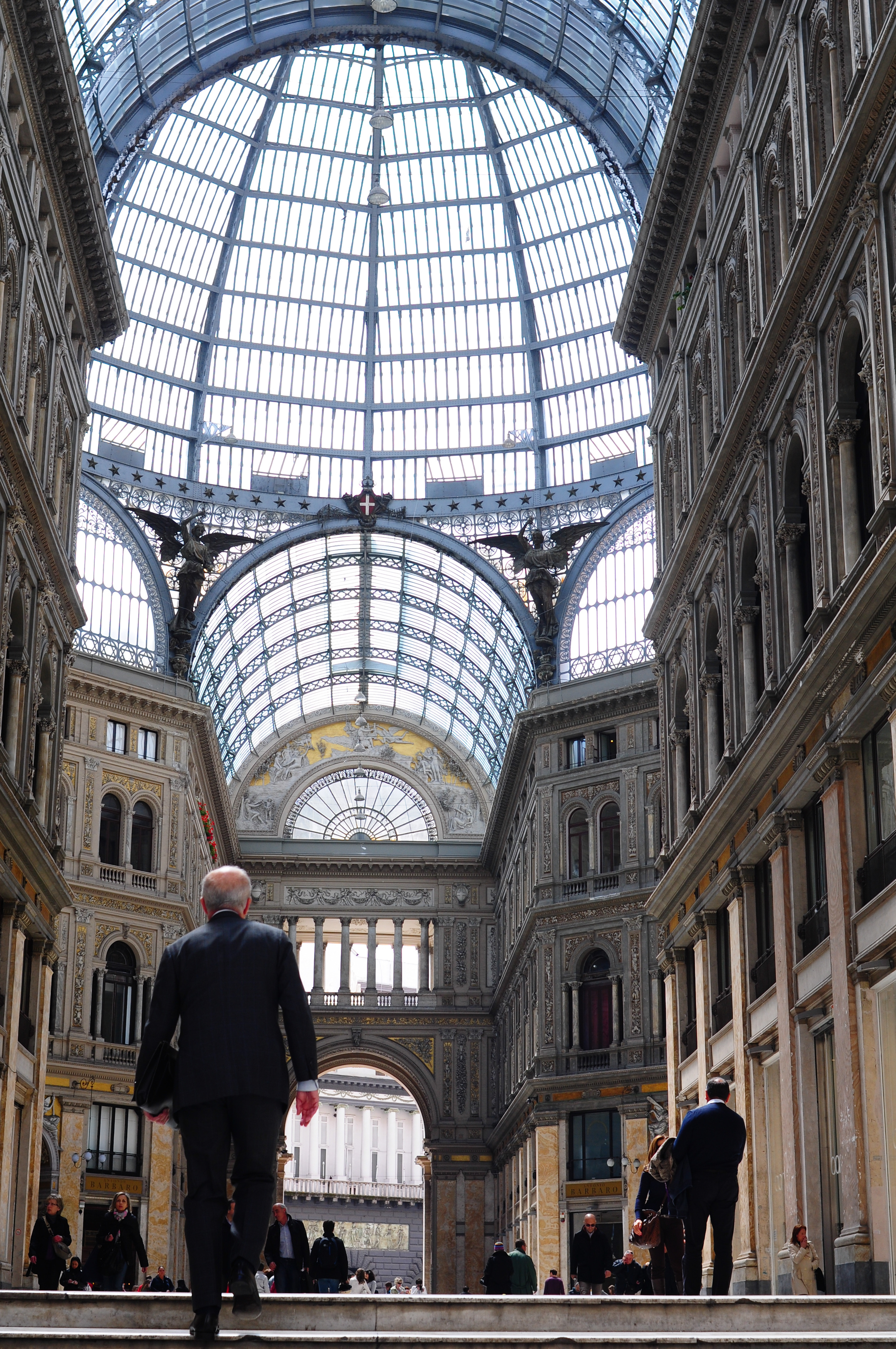 Interior of Galleria Umberto I. Naples, Campania, Italy, Southern Europe.